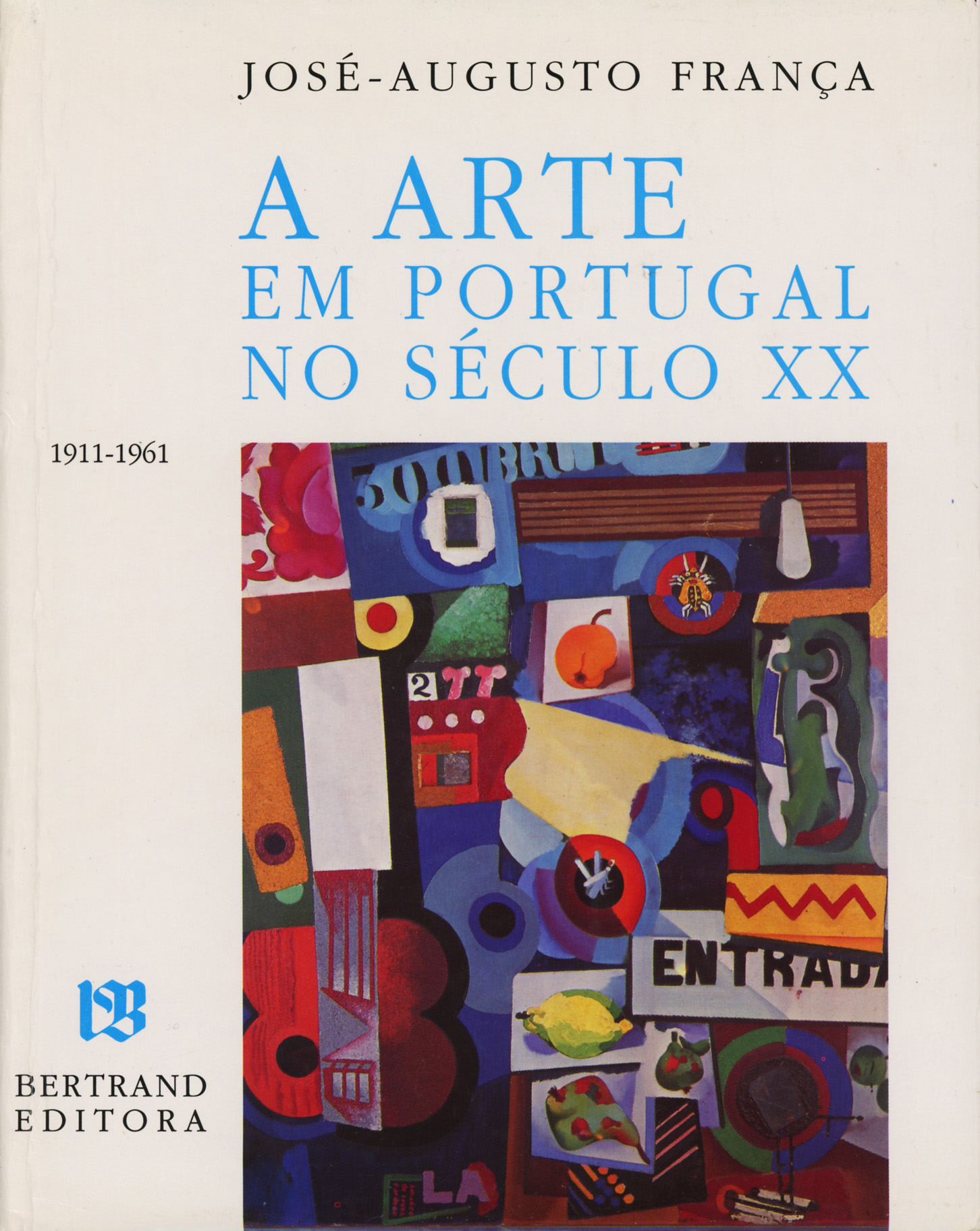 José Augusto França, Art in Portugal in the 20th Century; painting by Amadeo de Souza-Cardoso.